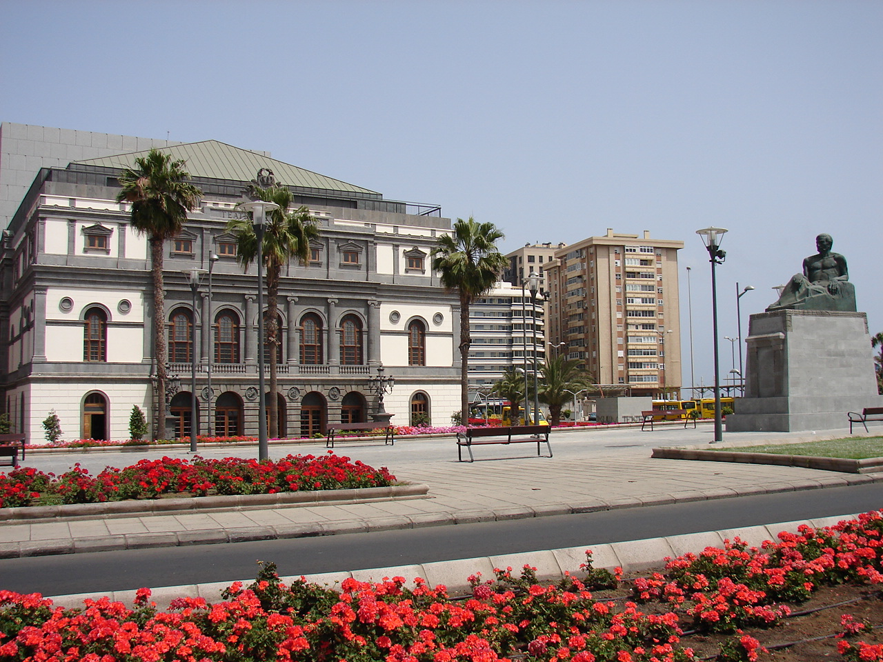 Overview